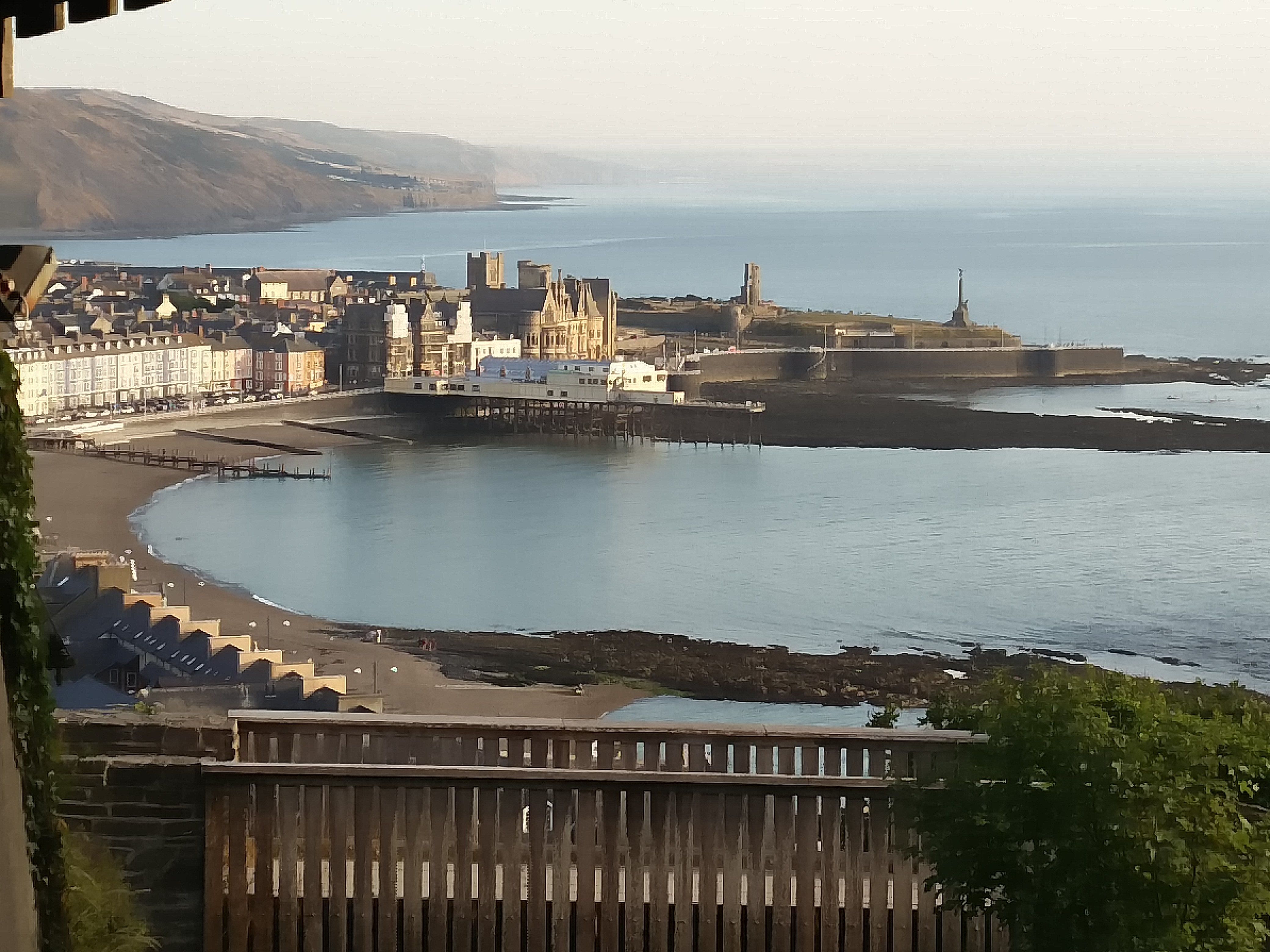 Aberystwyth Pier from the hill railway